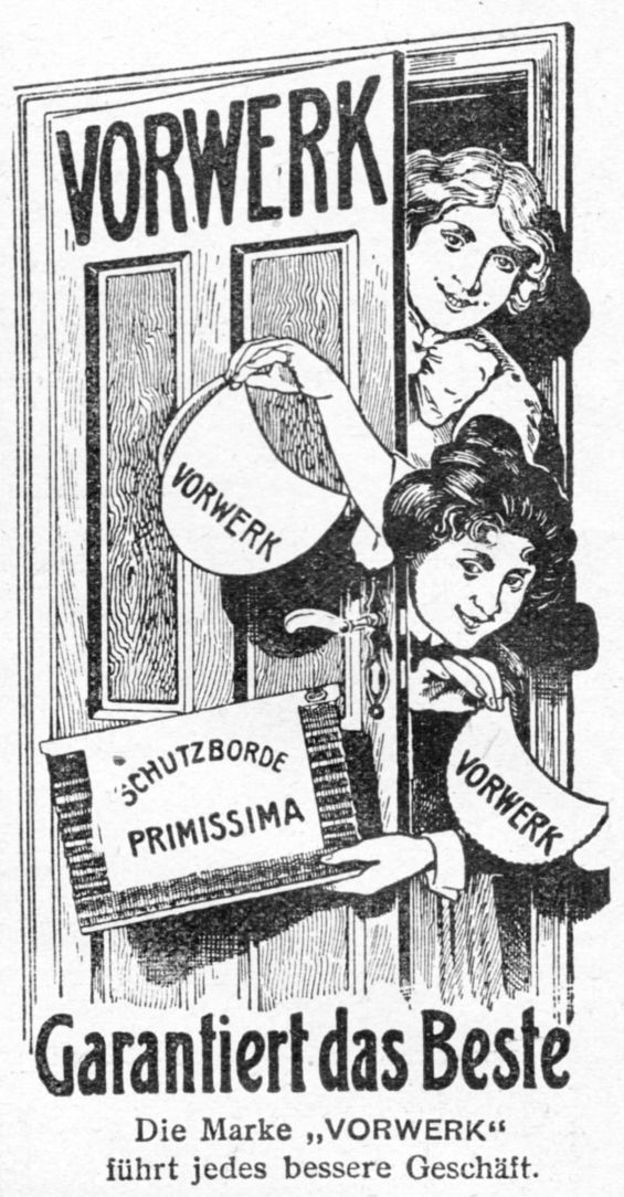 Advertisement of VORWERK